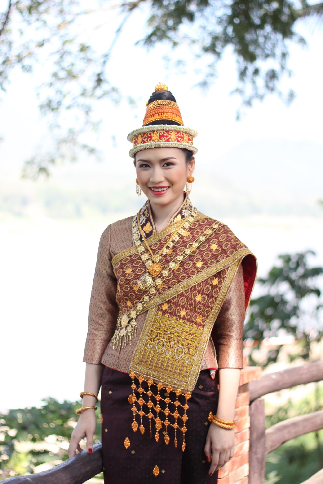 Nang Sangkhane (Miss Songkran) in Luang Prabang, Laos, wearing a sbai AKA pha biang, a pat shirt, a sinh, and a Luang Prabang crown.